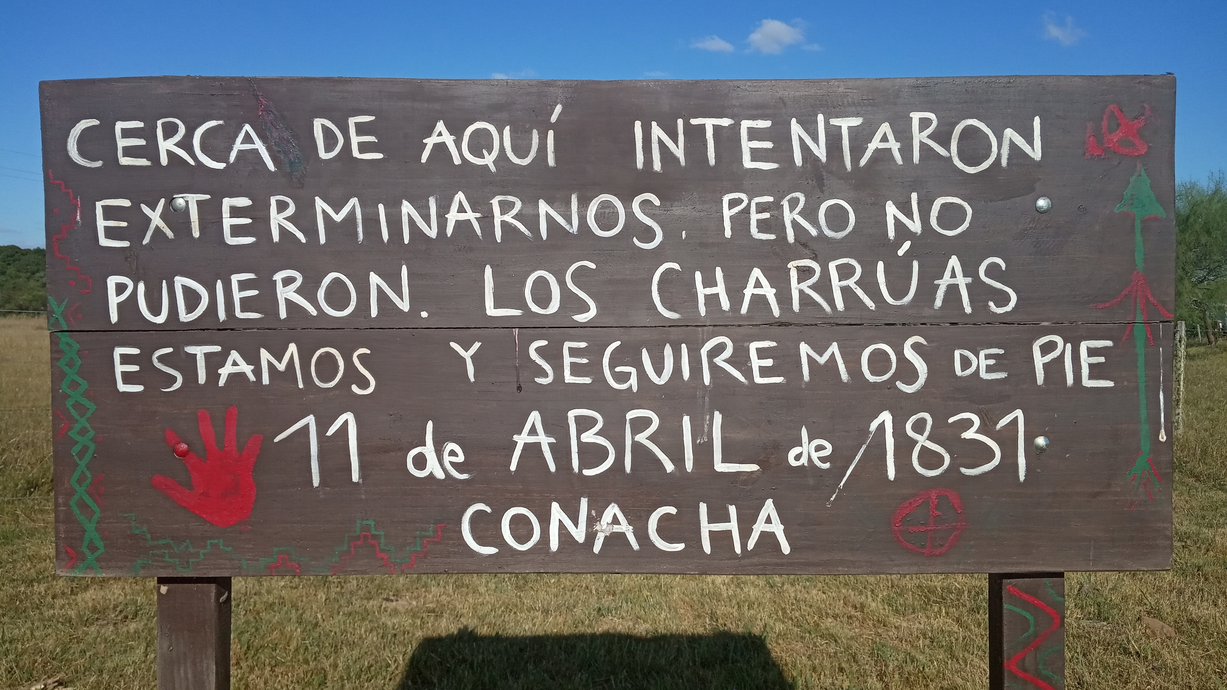 Commemorative plaque placed by the Council of the Charrúa Nation in Uruguay, next to the Monument in homage to those killed in the Slaughter of Salsipuedes, landmark of the Genocide of the People-Nation Charrúa, perpetrated by the Uruguayan State in 1831, on the banks of the Salsipuedes Stream and its intersection with Arroyo Tiatucura, in the vicinity of the Village of Tiatucura.